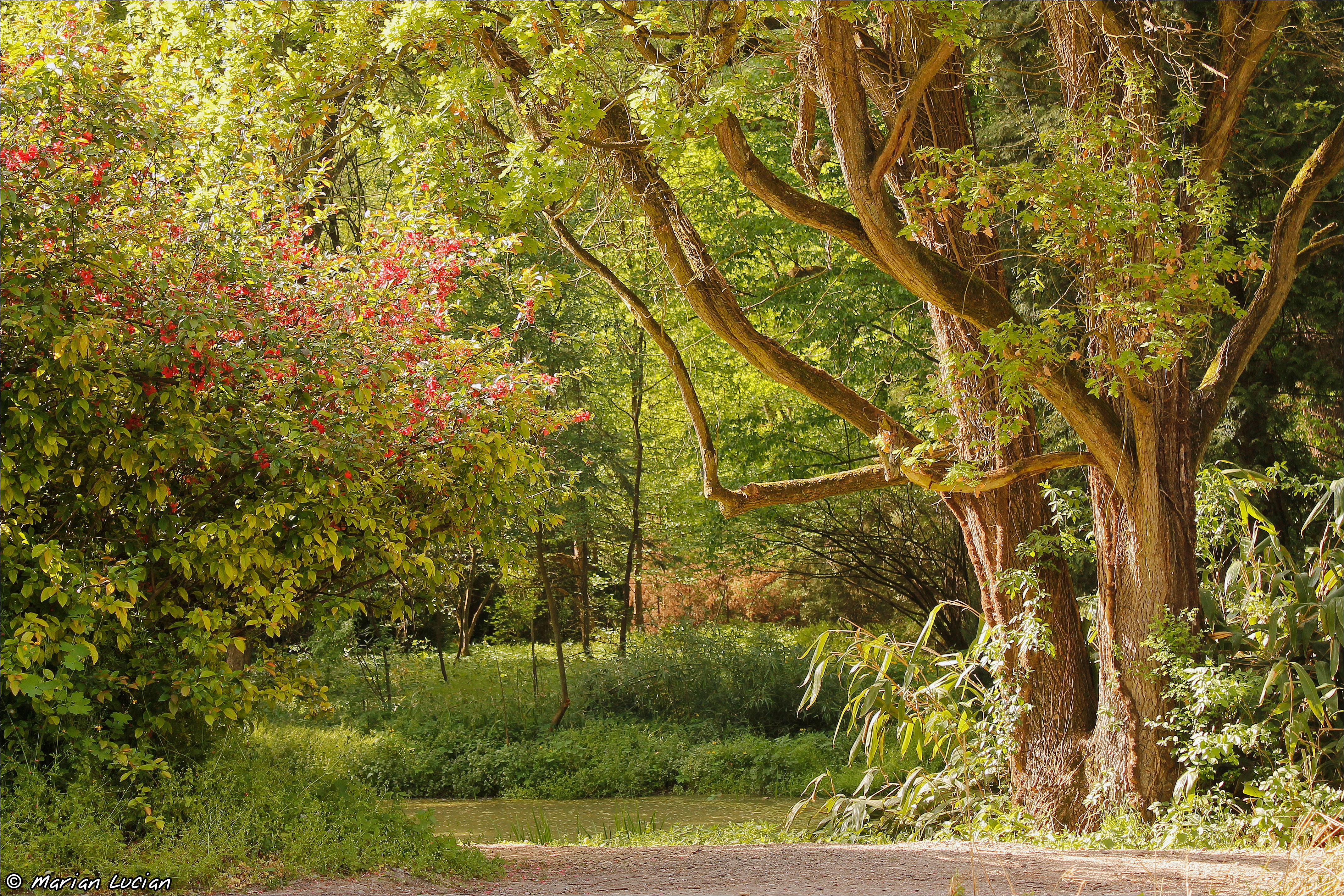 Peisaj in Arboretum Simeria